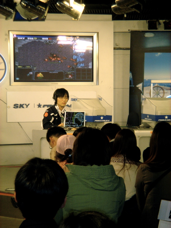 We went to see a televised, professional Starcraft match. This "sport" is taken very seriously in Korea, and it parallels professional sports elsewhere in that the key players are often very handsome, very carefully made over, and clad in branded gear.